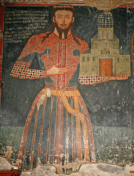 Lesnovo Church Joan Oliver Portrait 1342